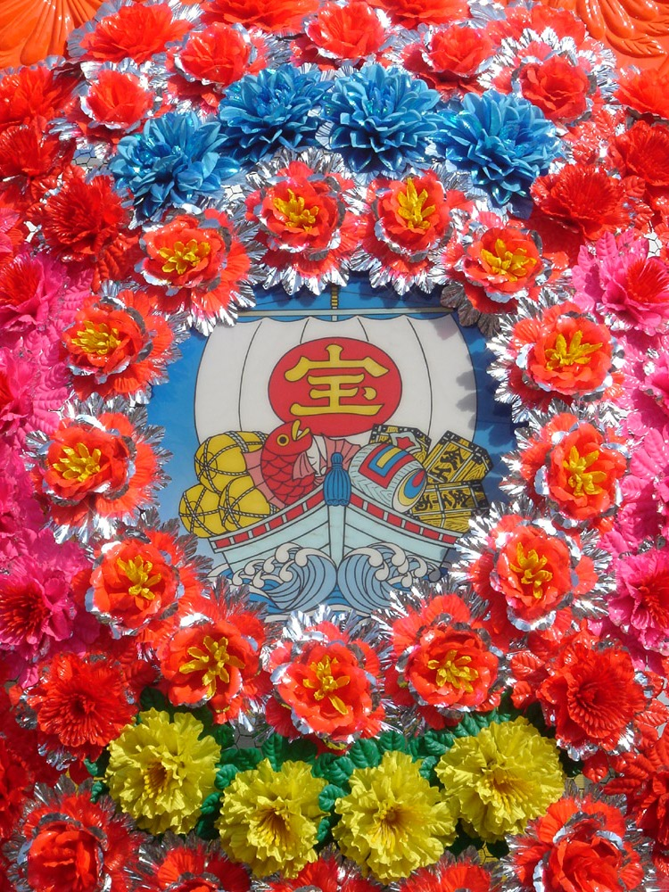 Japanese wreath for promotion of Pachinko, a vertical pinball game